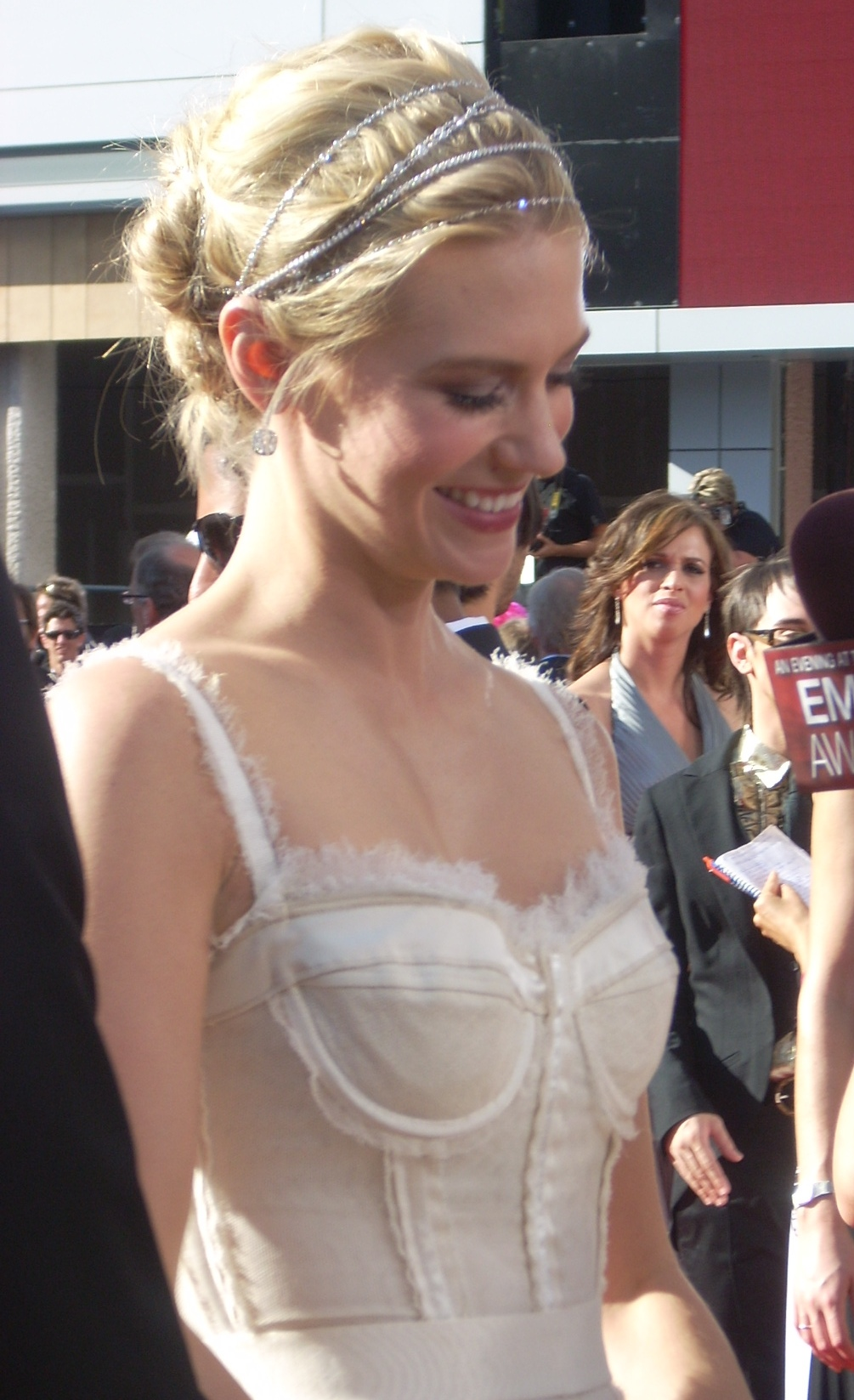 Actress January Jones at the 60th Annual Emmy Awards, Nokia Theatre, Sept. 21, 2008